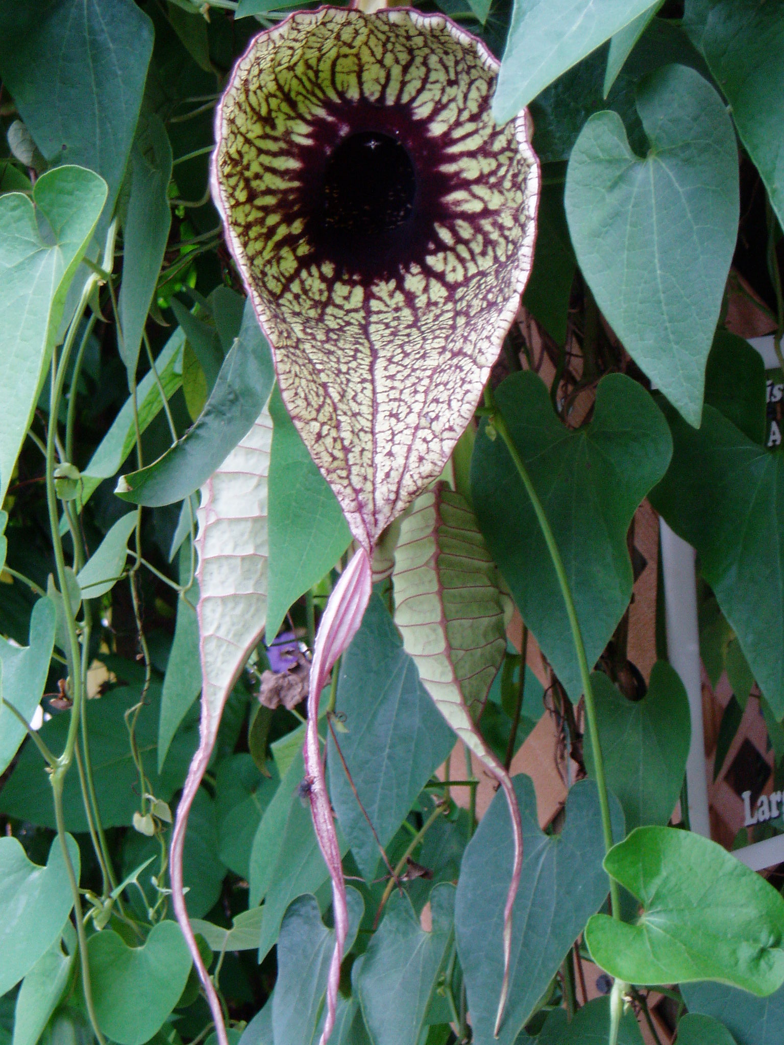 Image taken at Butterfly World Pelican Flower Aristolochia grandiflora